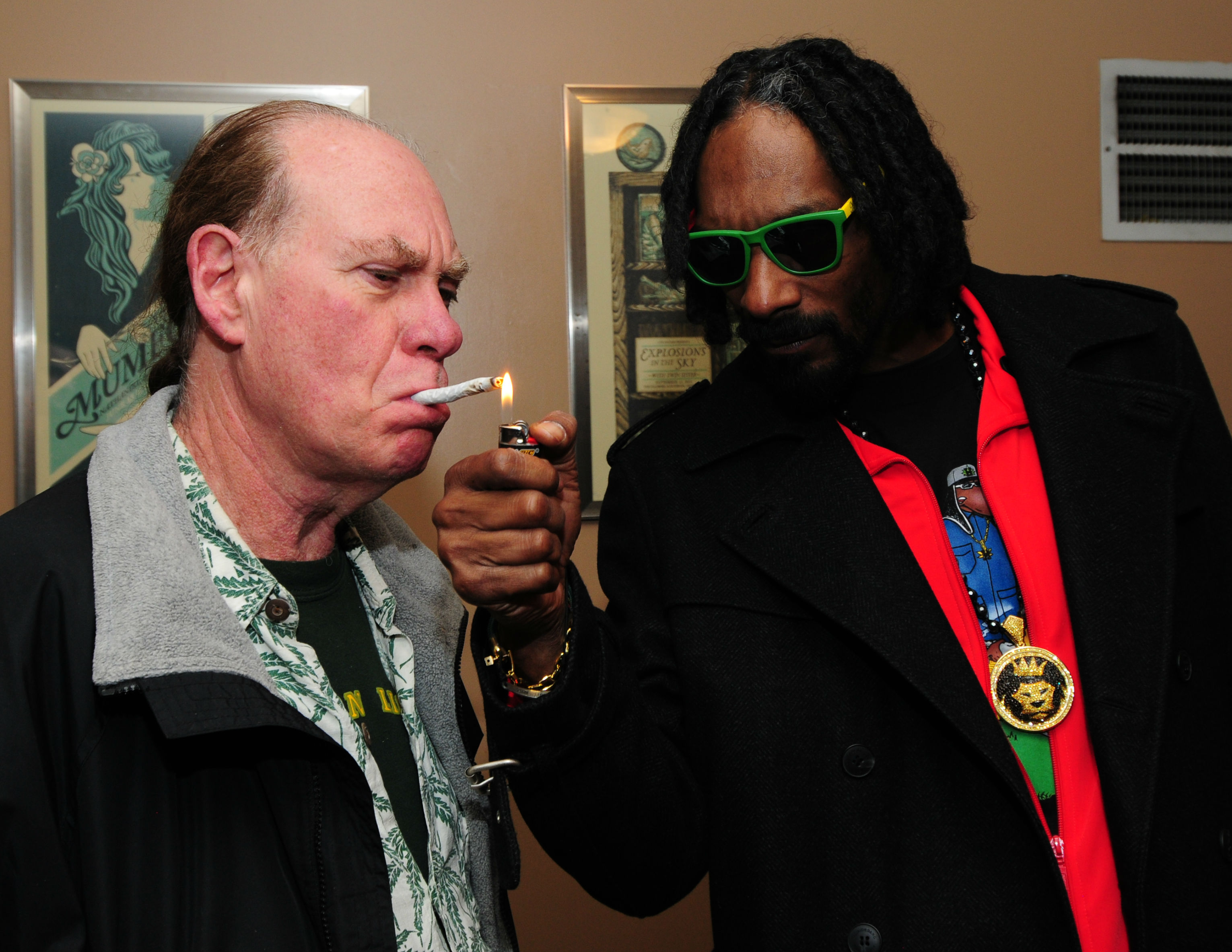 Snoop lighting a joint for Ed Rosenthal